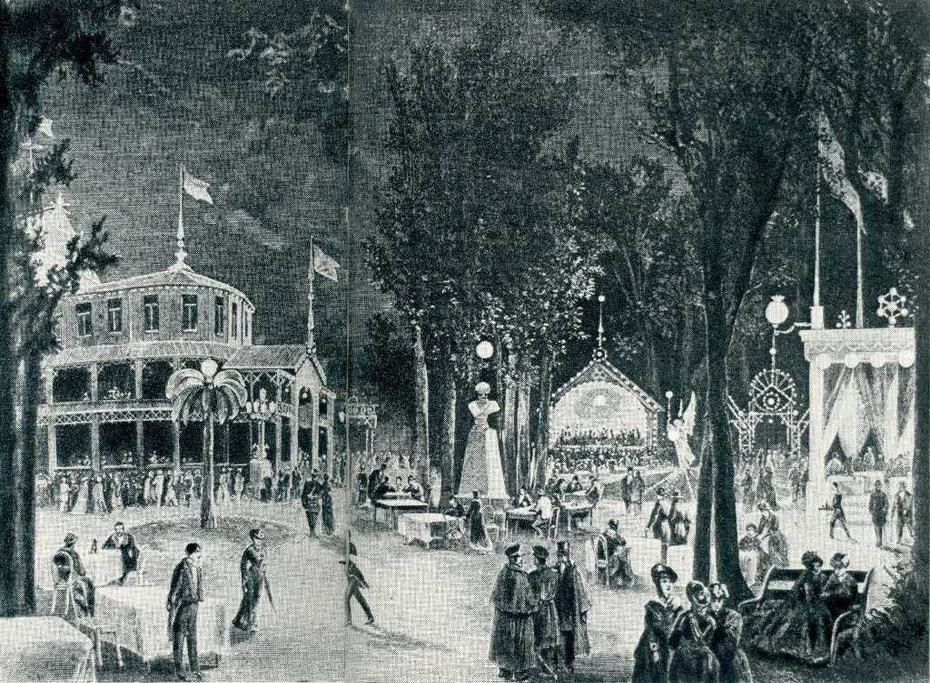 A drawing of the "old" Hermitage garden in Moscow